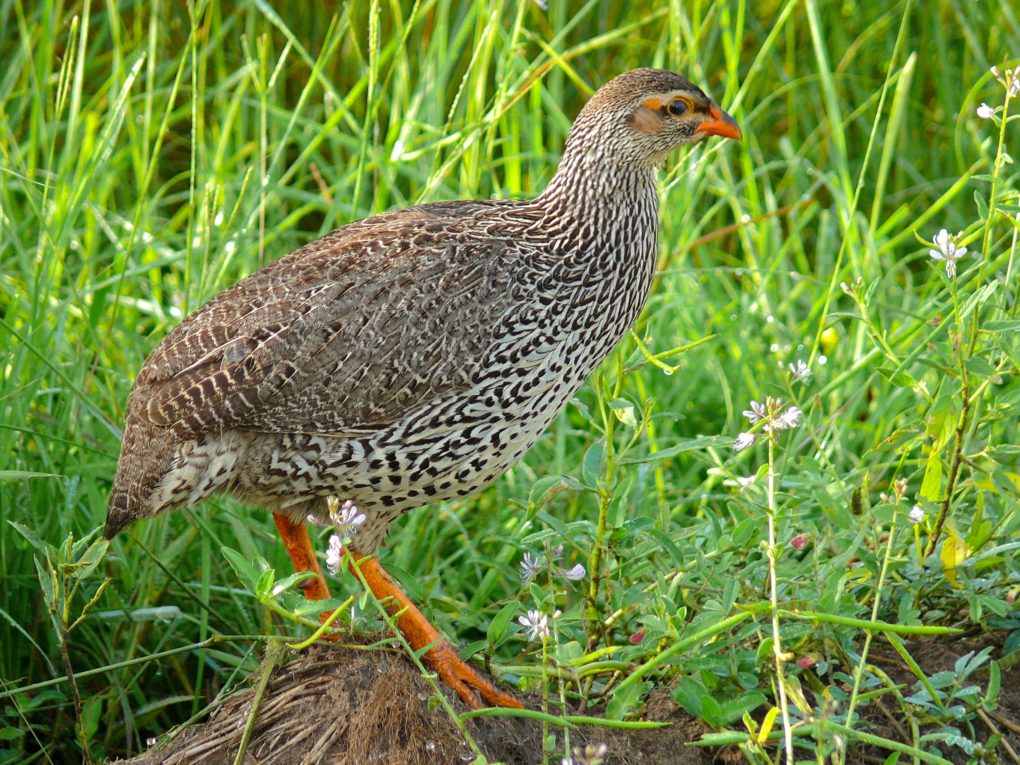 Murchison's Falls NP, UGANDA